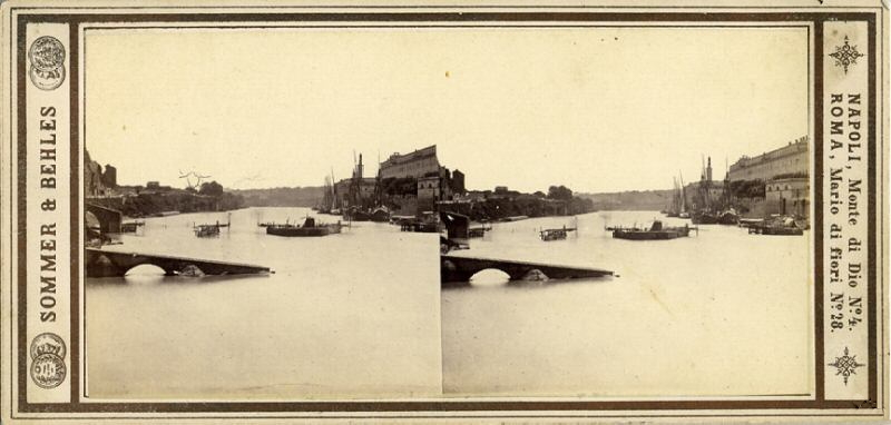 Sommer (1834-1914) & Behles (1841-1924) - A wrecked bridge (Ponte Sublicio) at Ripa Grande in Rome, Italy, before 1872. (Stereo card). Unknown catalogue #.